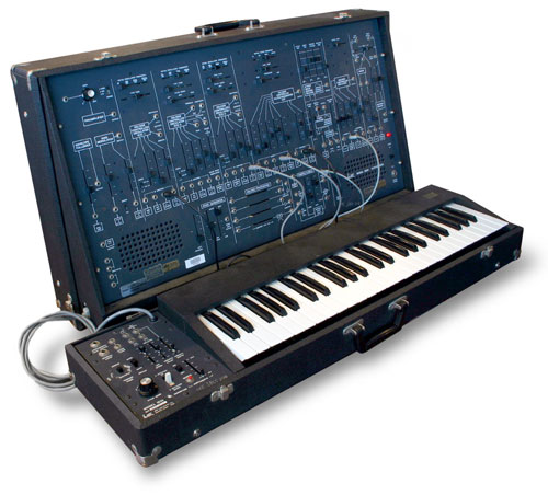 ARP 2600P v3.0 (1977–1980) or v4.0 (1980) (distinguished by Gclef logo), with Model 3620 Duophonic Keyboard (distinguished by panel layout).